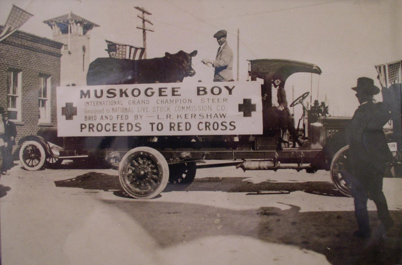 Muskogee Boy on Truck